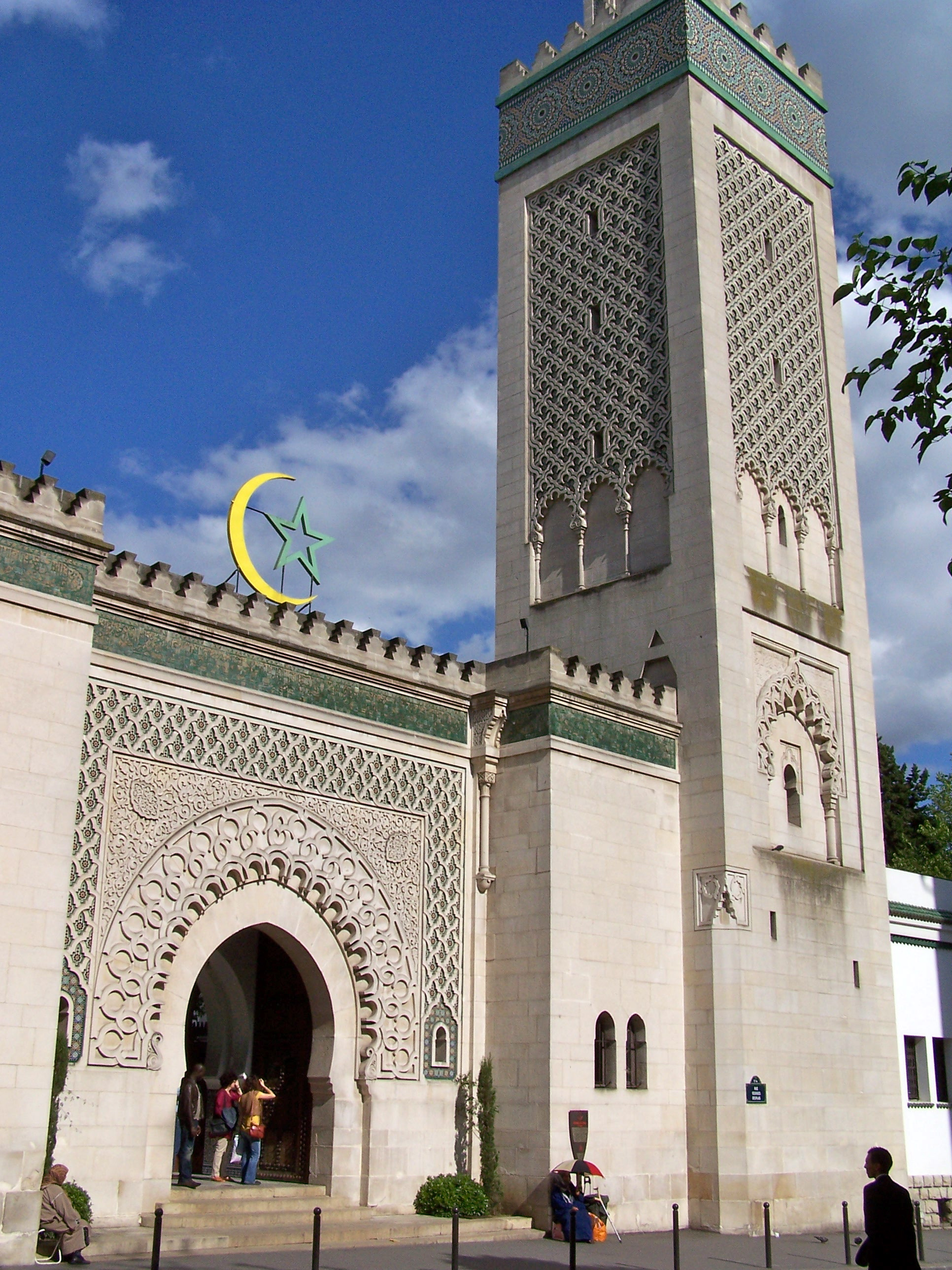 Entrance of the Grande Mosquée de Paris at rue Georges-Desplas in Paris